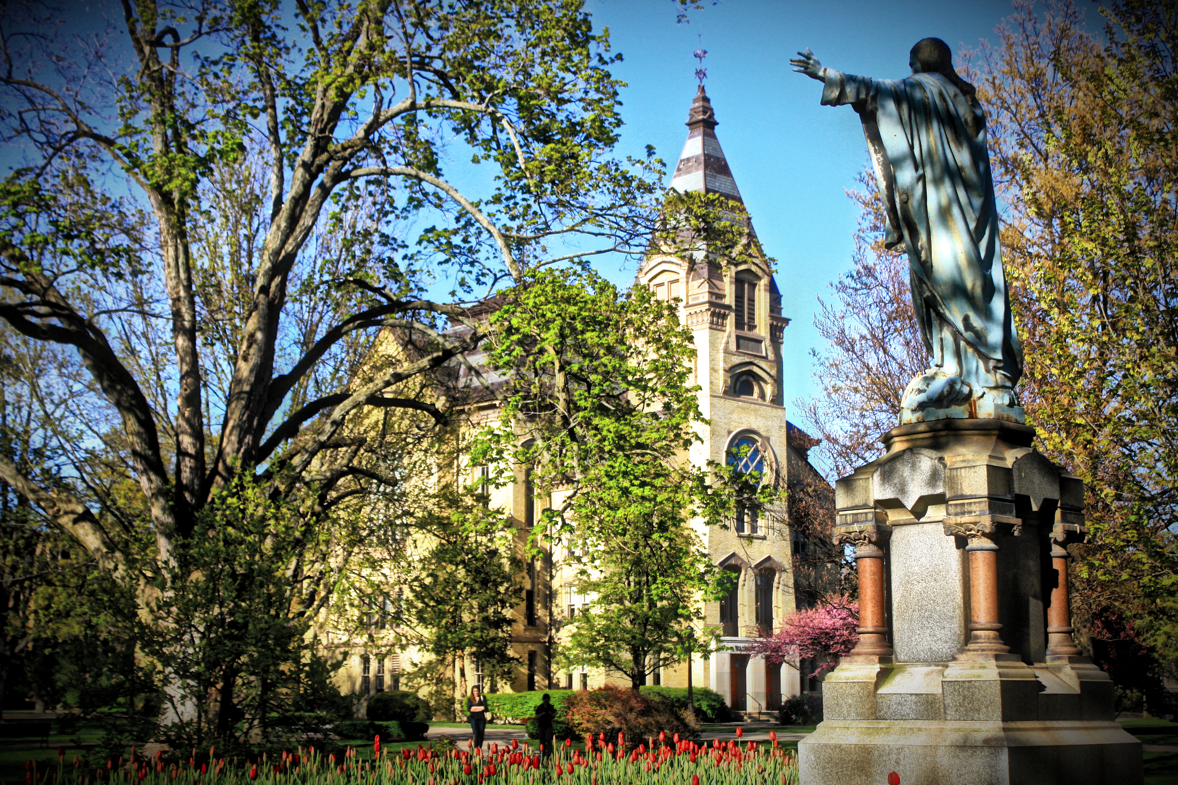 View of Washington Hall, which is adjacent to the Main Building on "God Quad" at the University of Notre Dame.